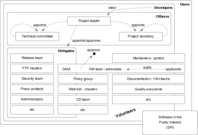 Debian fundation organigram